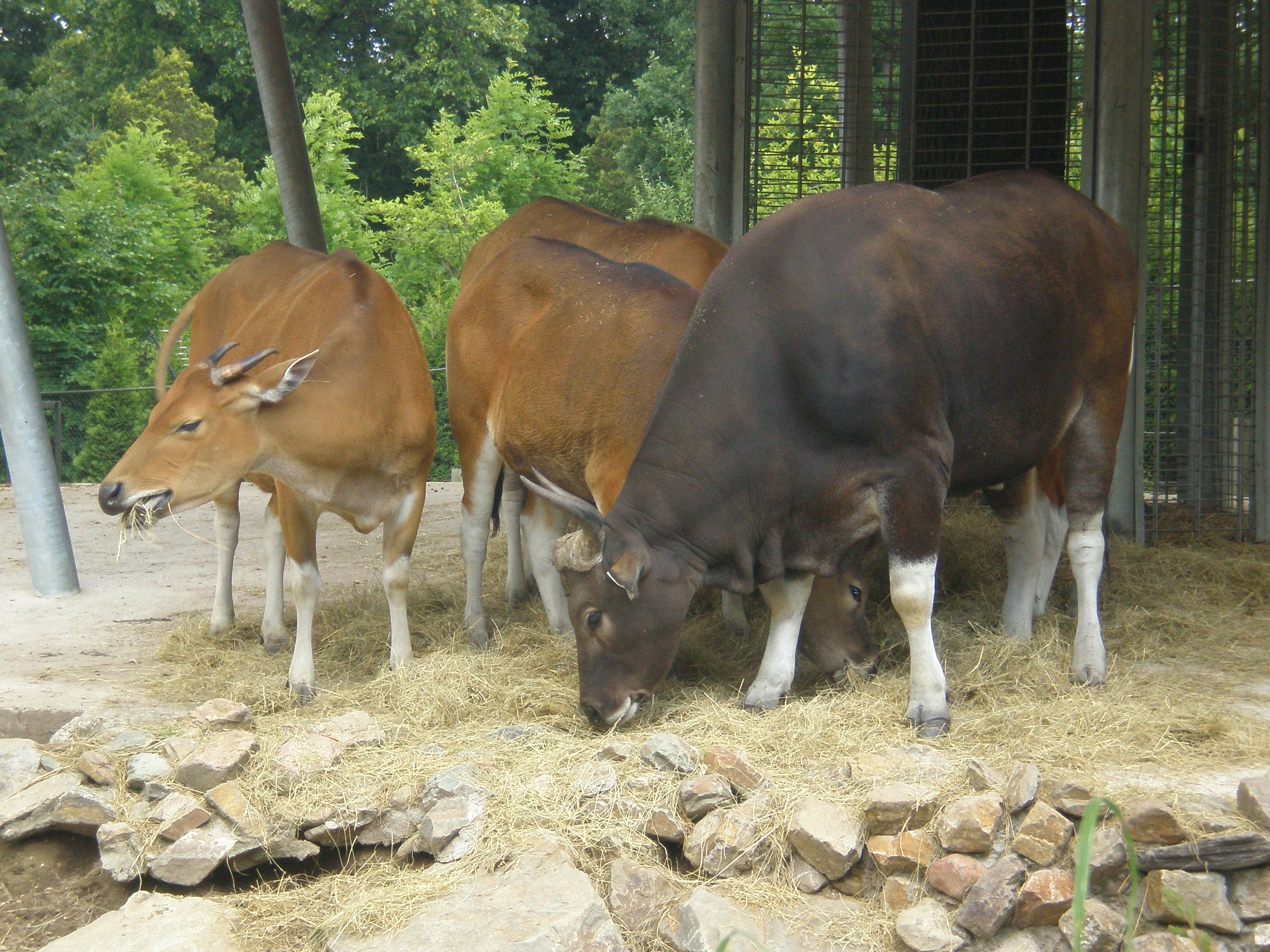 A Banteng (Bos javanicus).